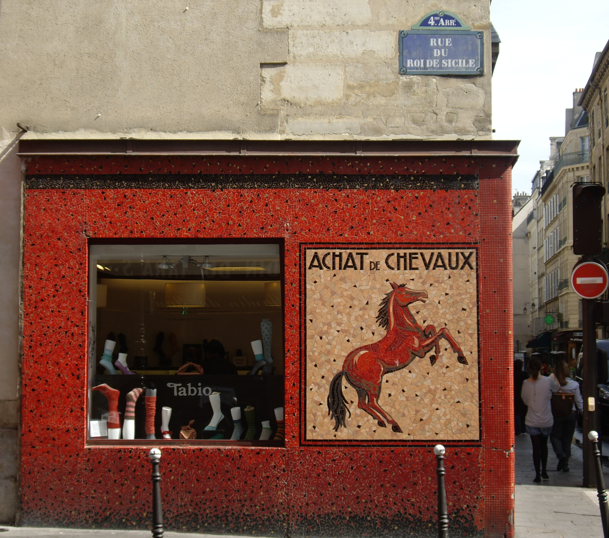 An old-style horse butcher's shop at the corner of Rue du Roi-de-Sicile and Rue Vieille-du-Temple in Paris 4th now hosts a hosiery store opened by the Japanese brand Tabio in 2009.